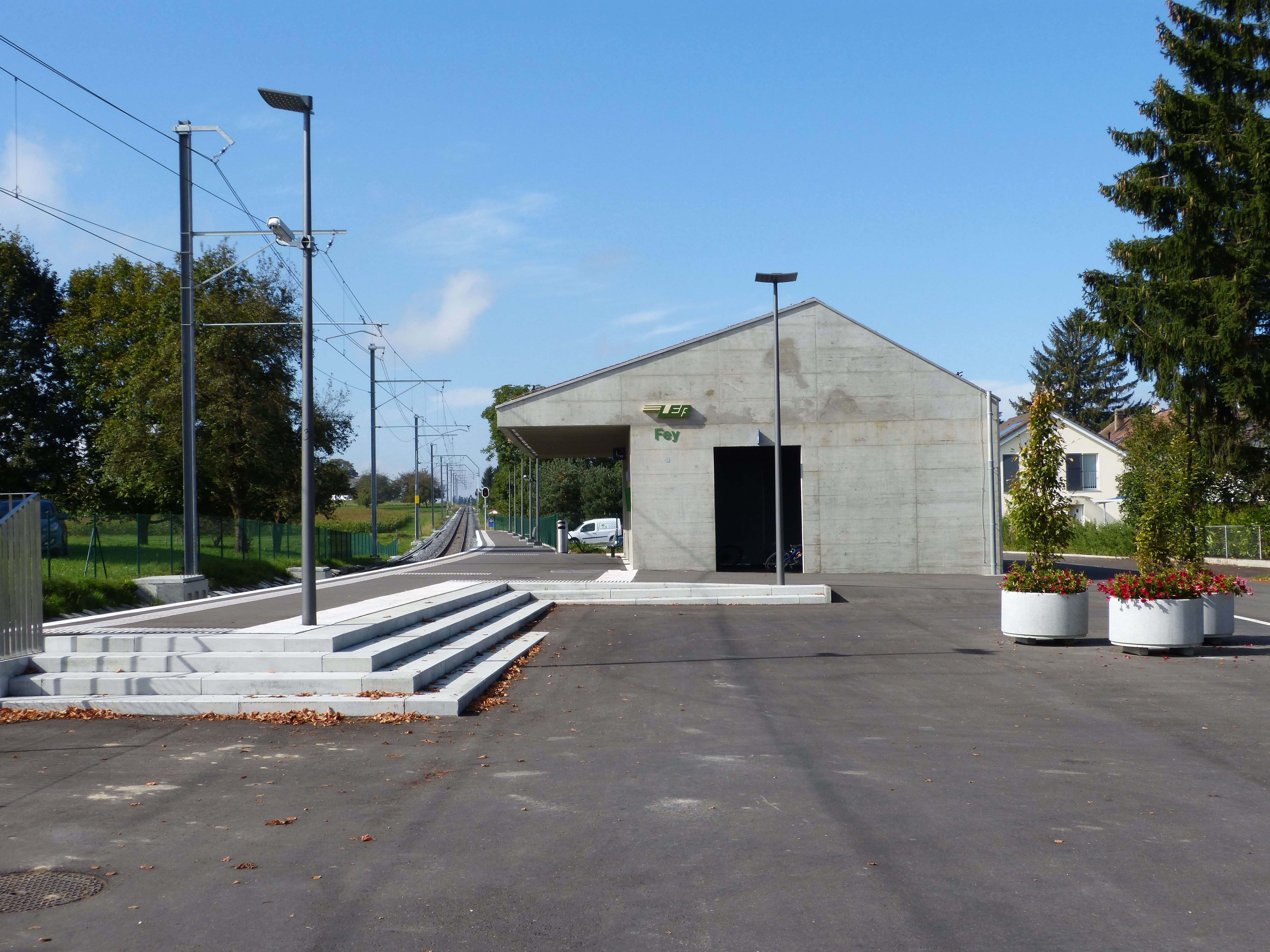 View of the building of Fey railway station.